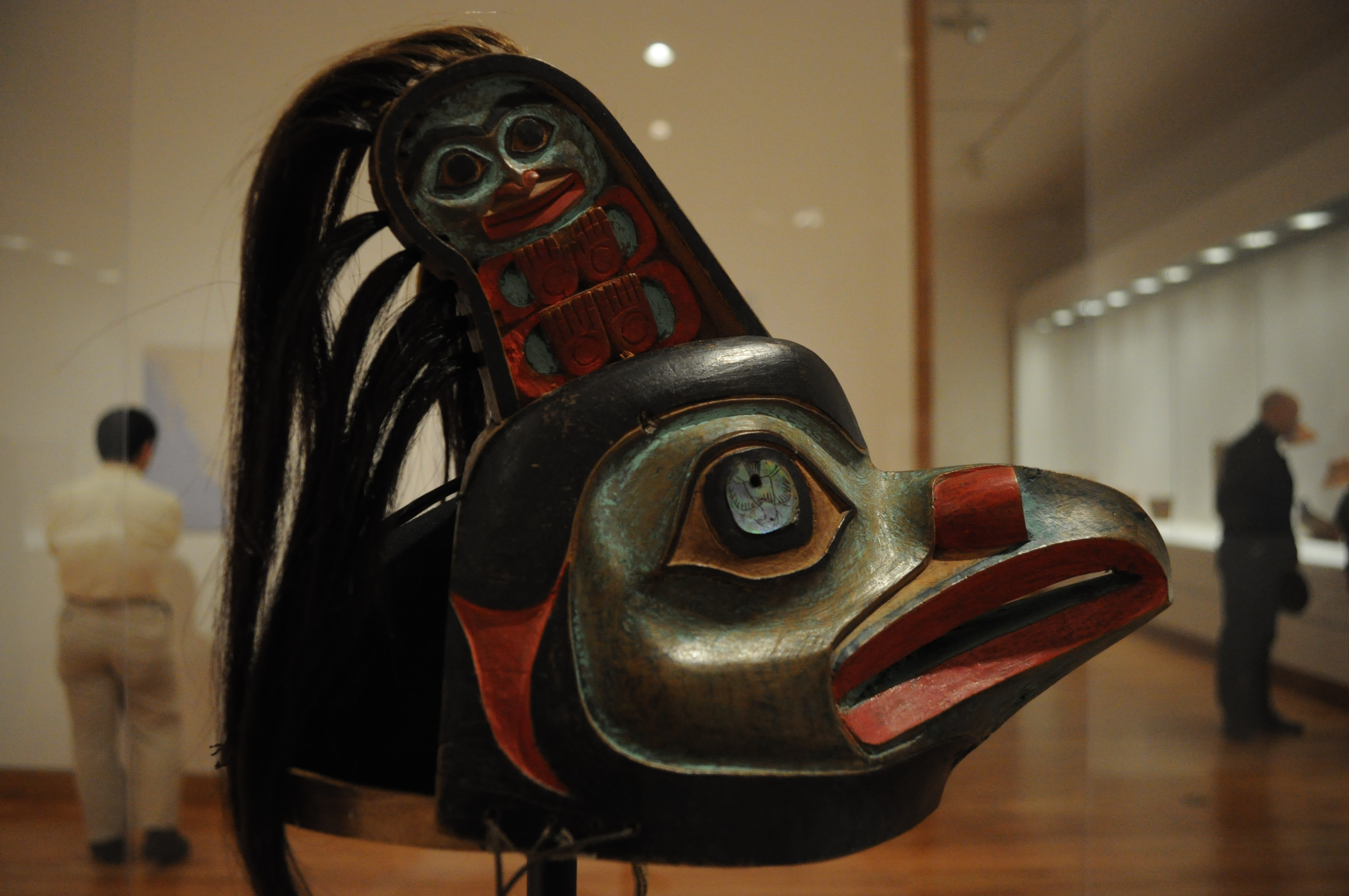 Ceremonial hat